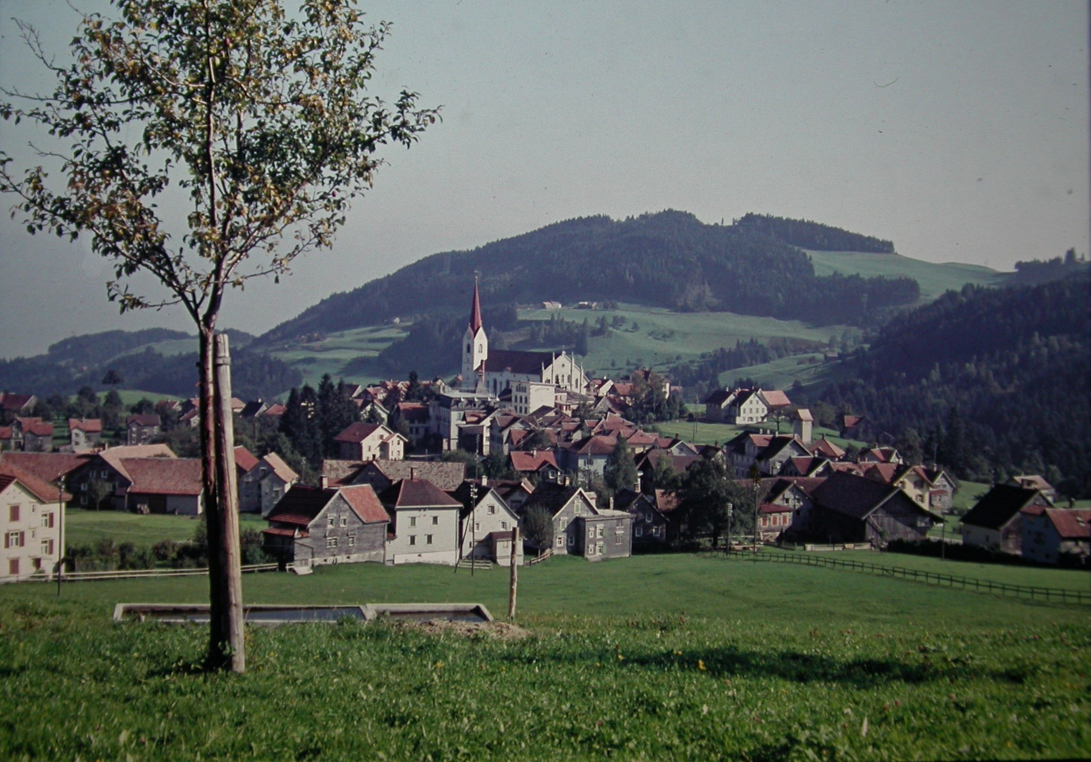 Oberegg as seen in the fifties